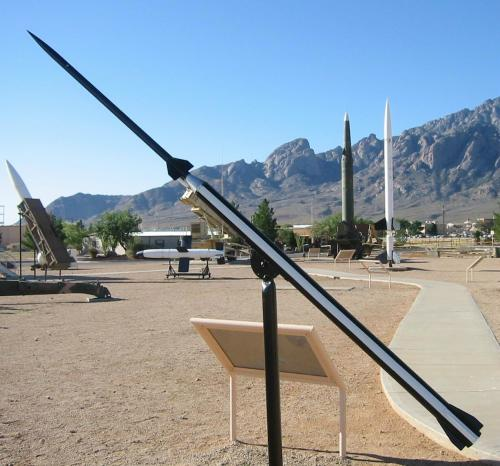 The Loki missile. From the source: Initially designed as an anti-aircraft vehicle but eventually became a research workhorse at White Sands. Until recently, it was fired daily carrying weather instruments to measure atmospheric conditions over the missile range.